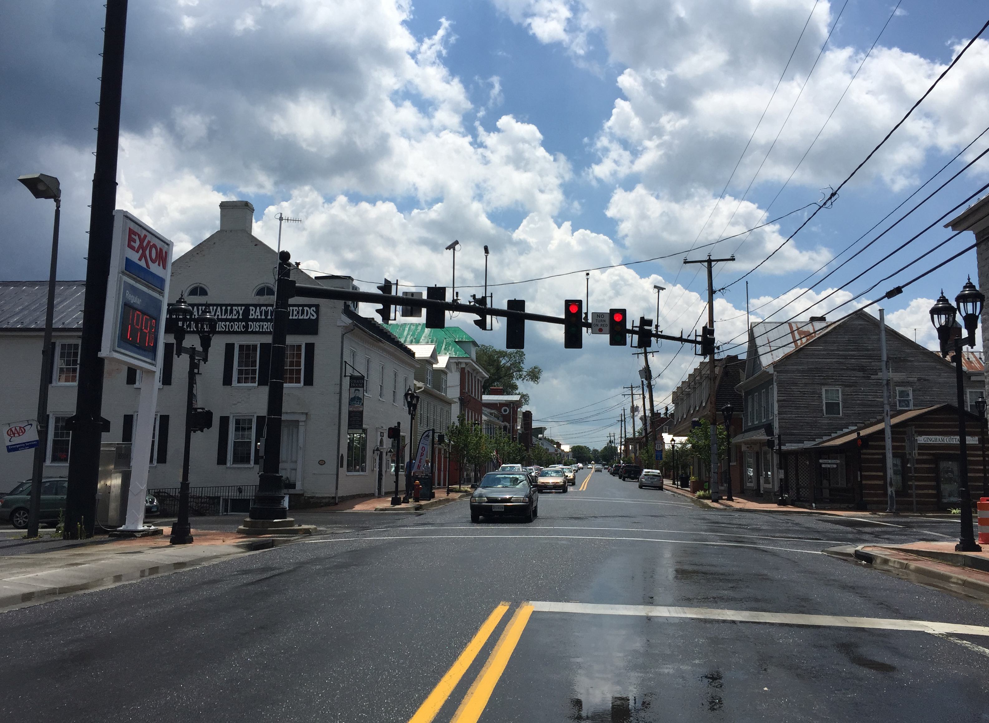 View south along U.S. Route 11 and west along U.S. Route 211 (Congress Street) at Old Cross Road in New Market, Shenandoah County, Virginia